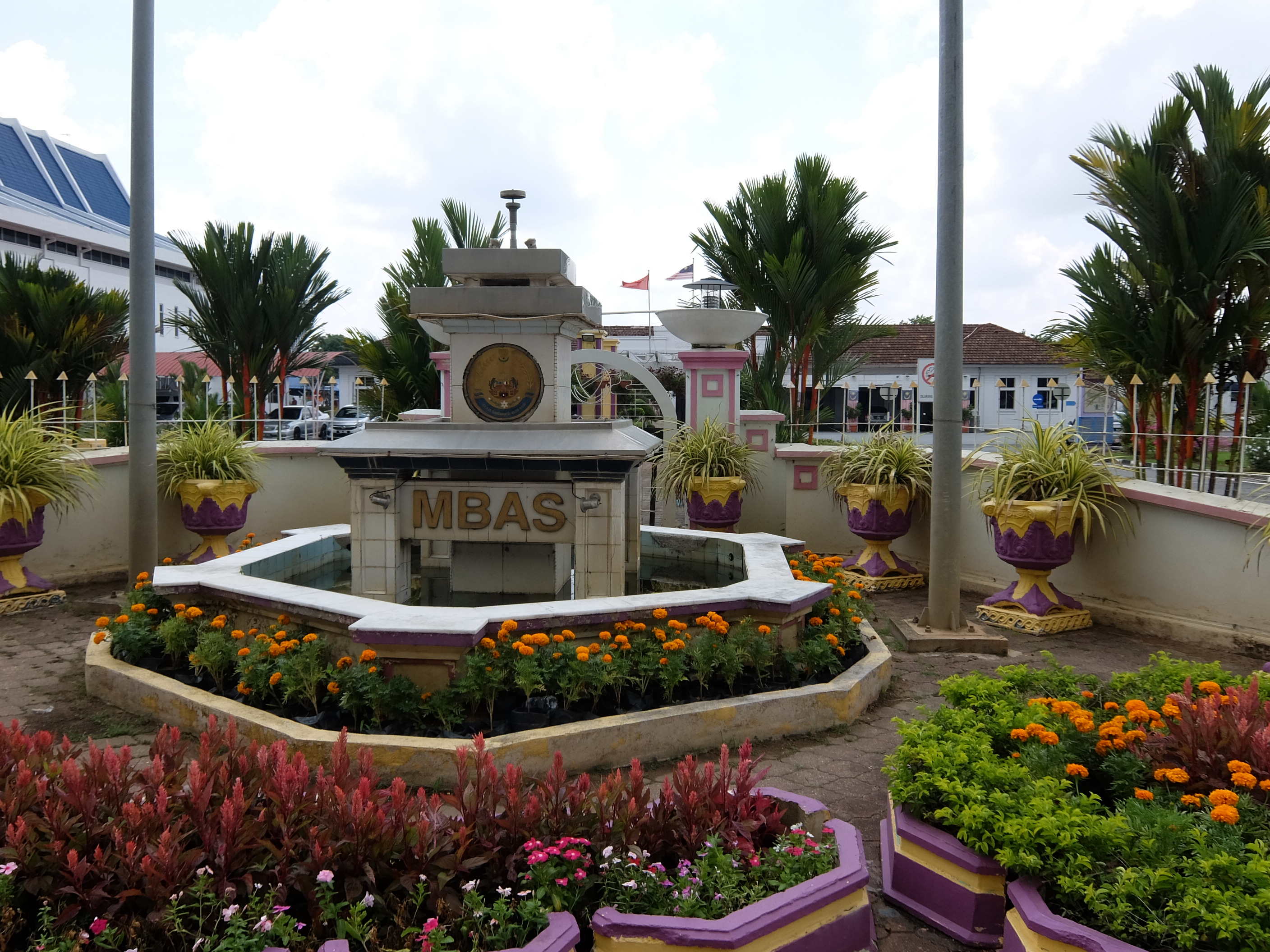 Alor Setar City Council, Alor Setar, Kota Setar, Kedah, Malaysia